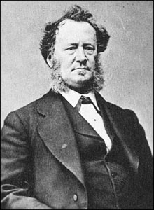 Photograph of Jacob Forney